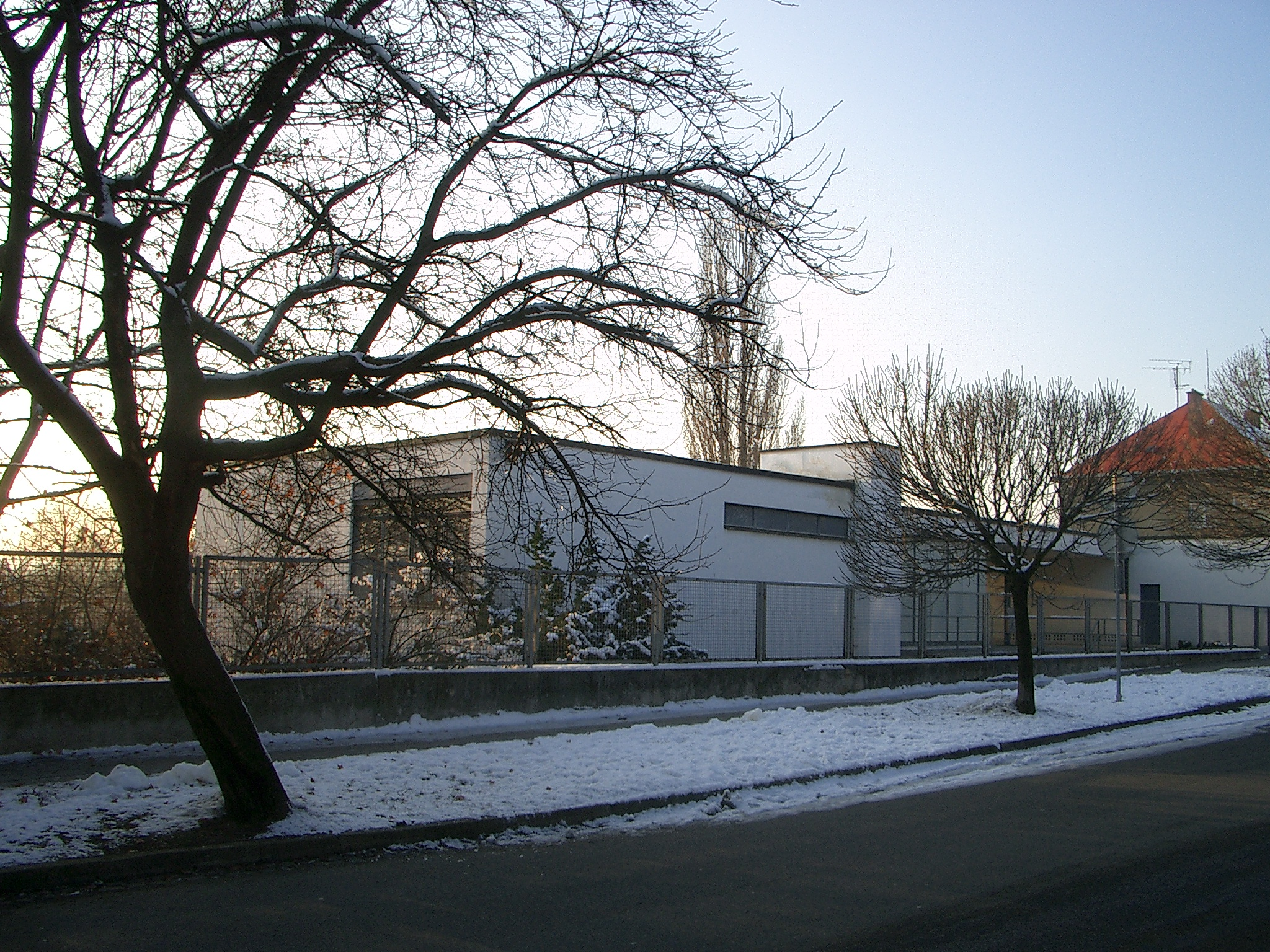 Front entrance to the Villa Tugendhat. Photo taken on 2rd December 2005 in Brno, Czech Republic Author: Jean-Claude Brunnet.